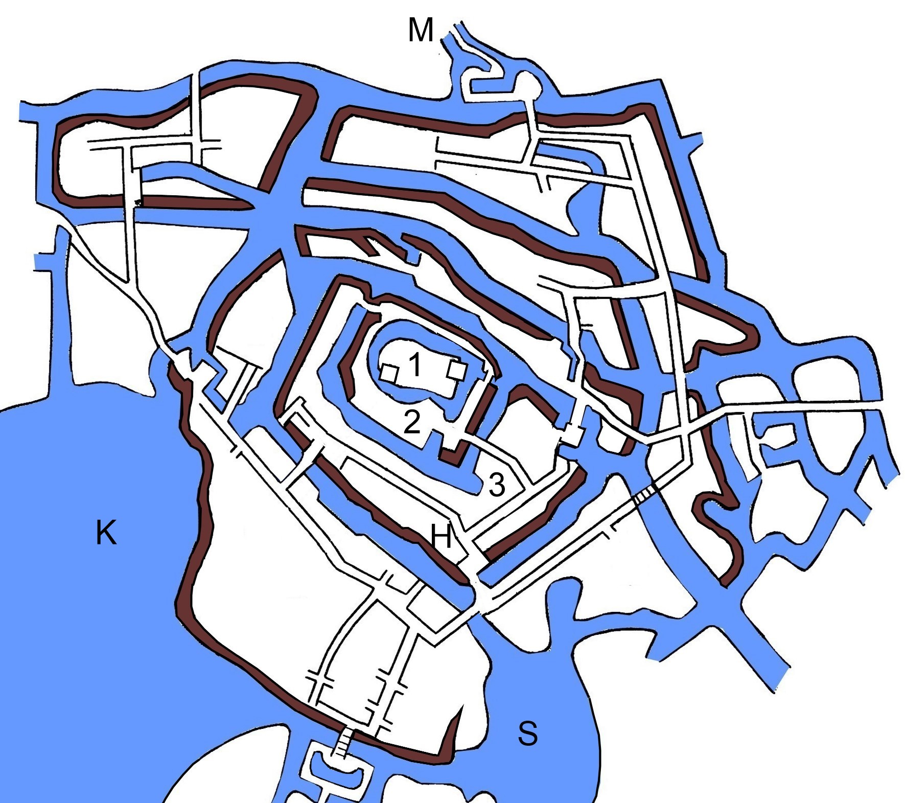 Layout of old Tsuchiura castle